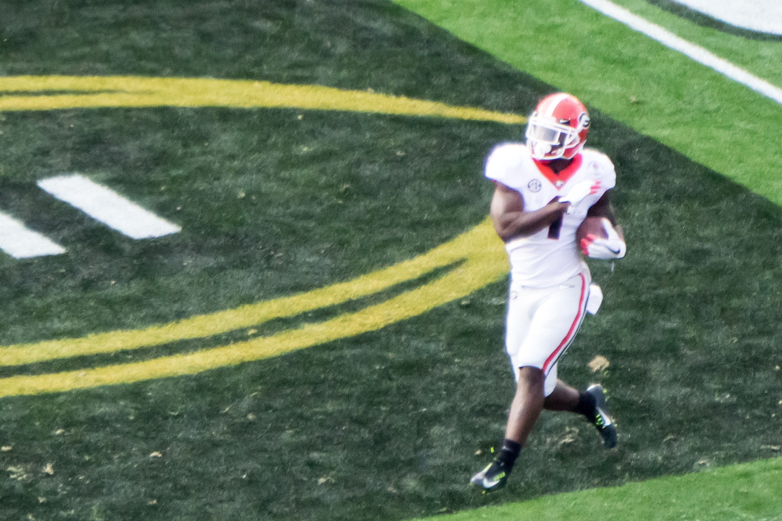 Sony Michel scores Georgia's first touchdown at the 2018 Rose Bowl.